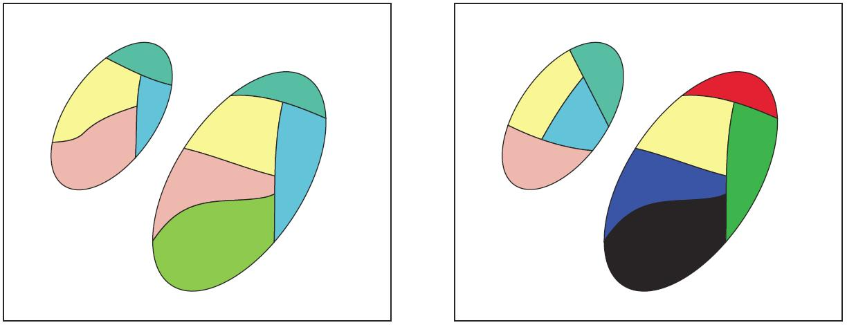 This image provides a visualization of the nearness measure. The sets on the left are considered closer (or more near) than the sets on the right.